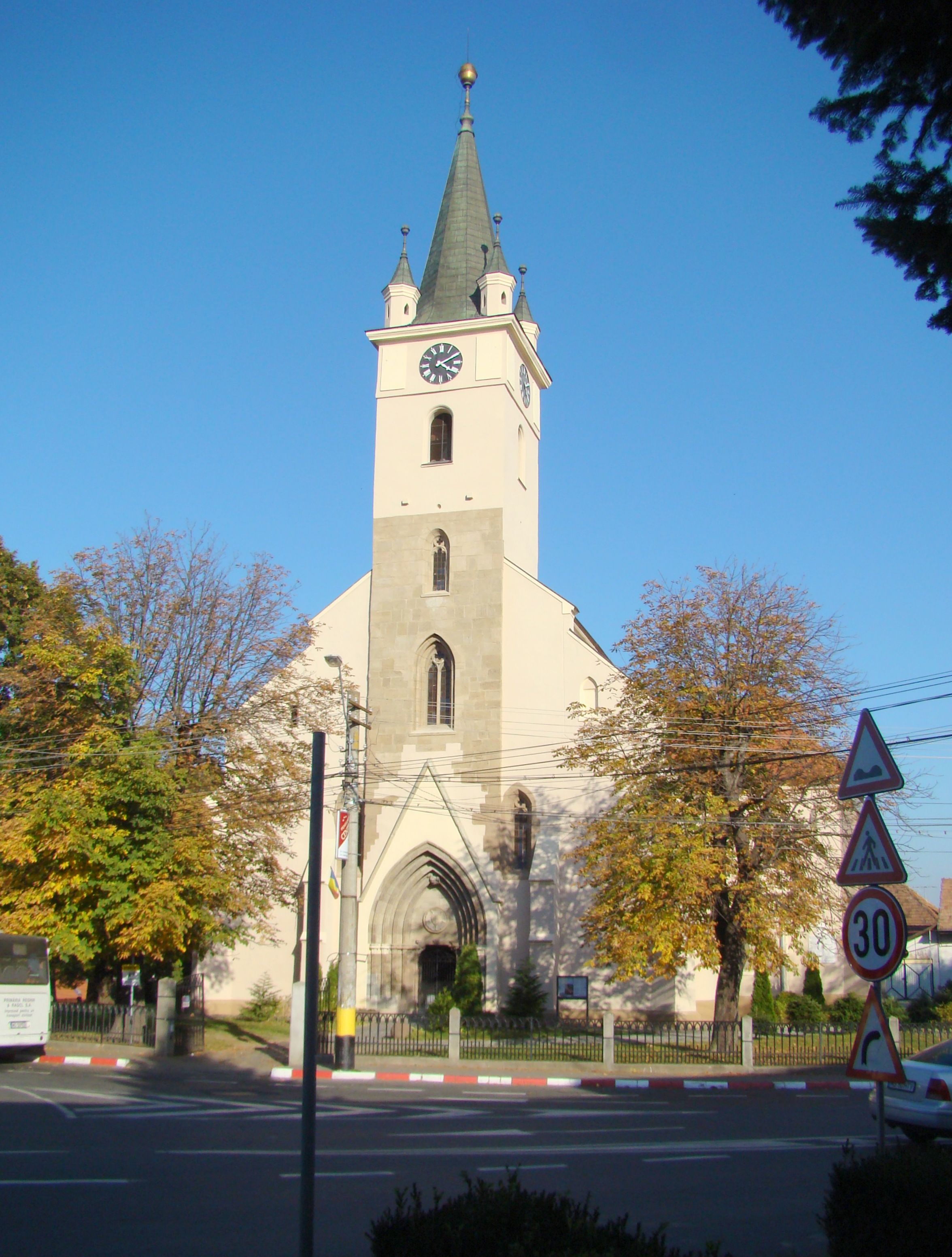 Lutheran church in Reghin, Mureş county, Romania